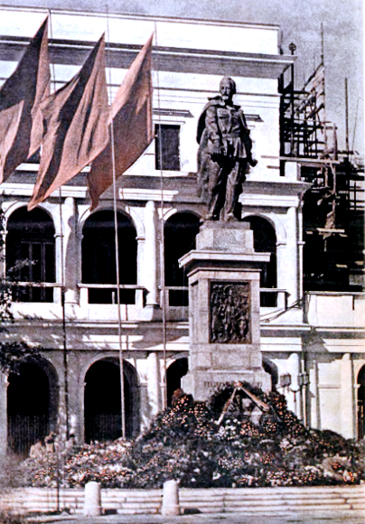 non existing monument to Felix Edmundovich Dzerzhinsky in Warsaw (1951-1989)